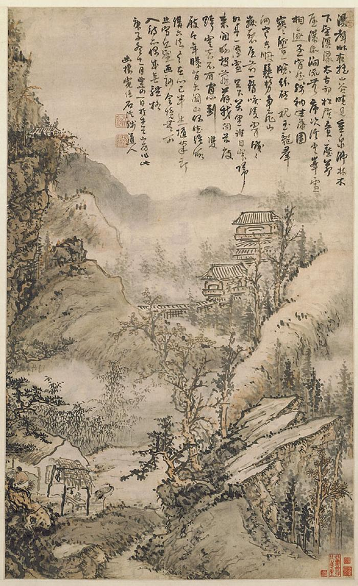 Landscape after Night Rain Shower, 1660, by Kun Can (1612—c.1673). Hanging scroll, ink and color on paper. The Palace Museum, Beijing. Kun can (Shiqi) became a somewhat misanthropic abbot at a Buddhist monastery near Nanjing. His works were typically inspired by the densely tangled brushwork of Wang Meng.